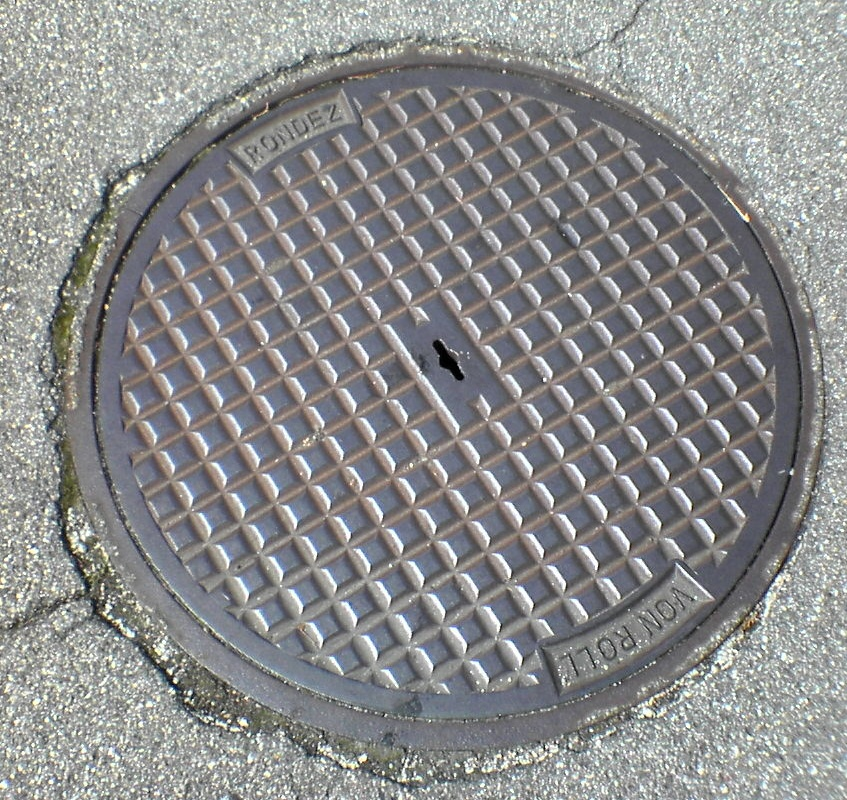 Manhole cover made by Von Roll Rondez. Photo taken in Switzerland, July 2008.